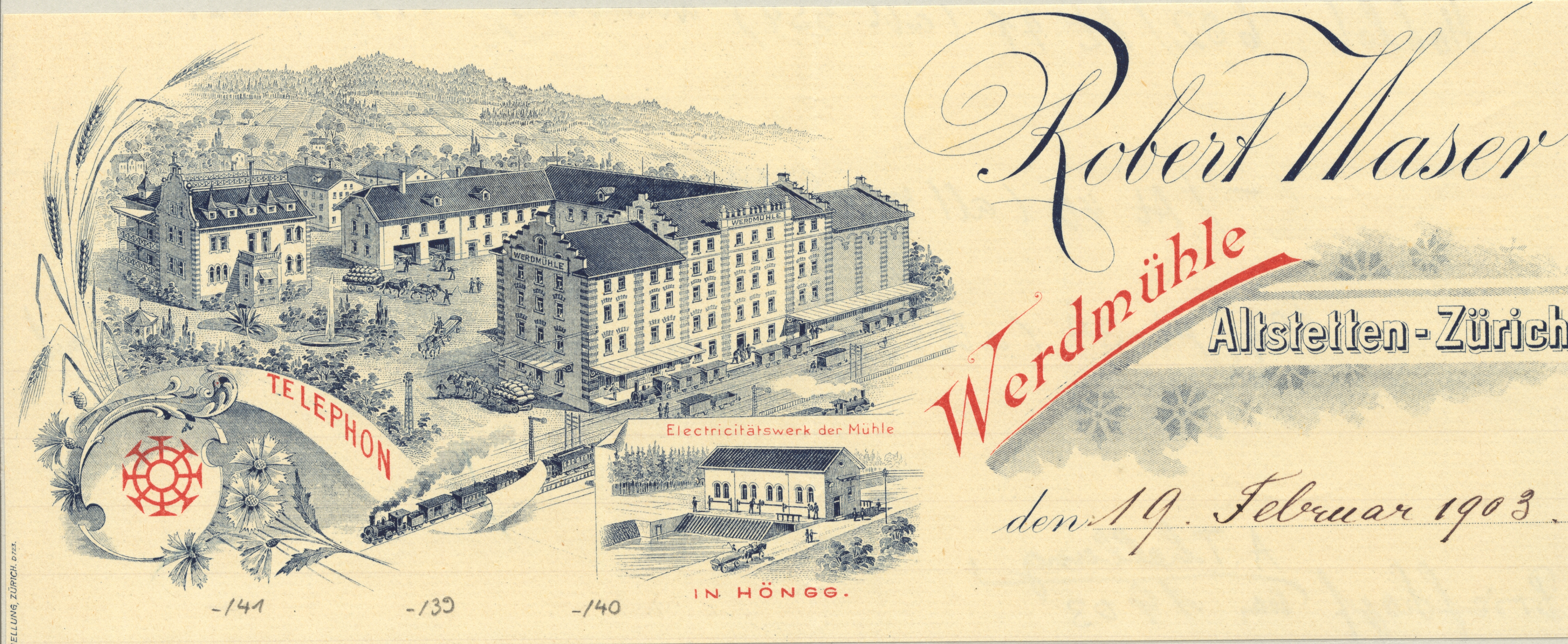 Waser Werdmühle, Zürich-Altstetten, Schweiz, 1903